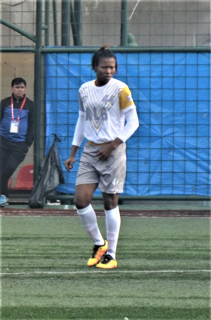 Ujunwa Eucharia Okafor of ALG Spor in the 2018-19 Turkish Women's First league.